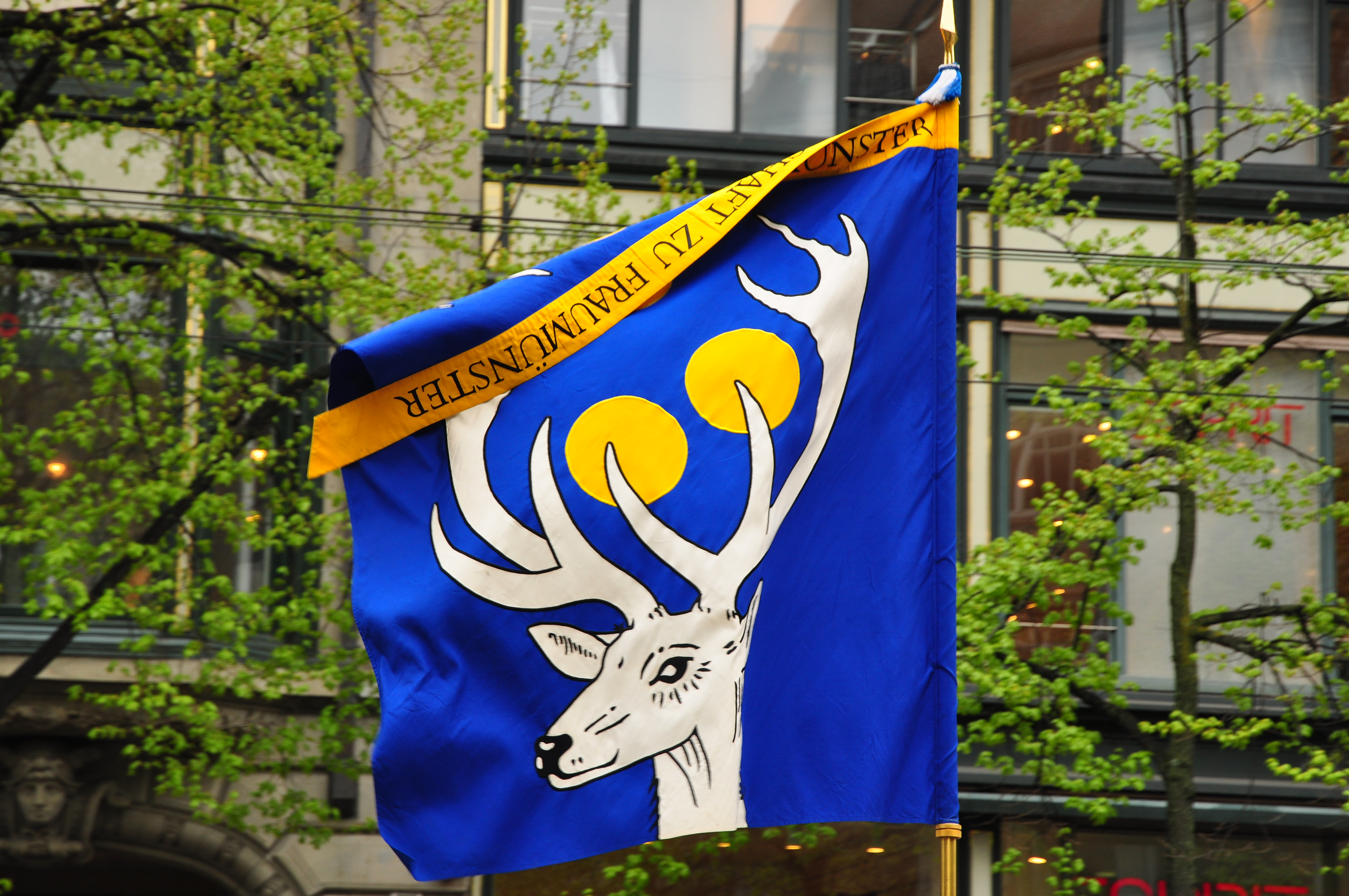 Flag of the honorable Gesellschaft zu Fraumünster (Fraumünster society respectively guild), being (unwanted) 'guests' at the parade of the Zünfte (guilds), Bahnhofstrasse in Zürich (Switzerland) on Sechseläuten-Montag, April 16, 2012.